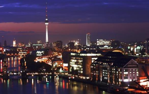 Berlin at night. Seen from the Allianz building in Treptow, showing the Universal building on the right at the river Spree and the TV-Tower at Alexanderplatz